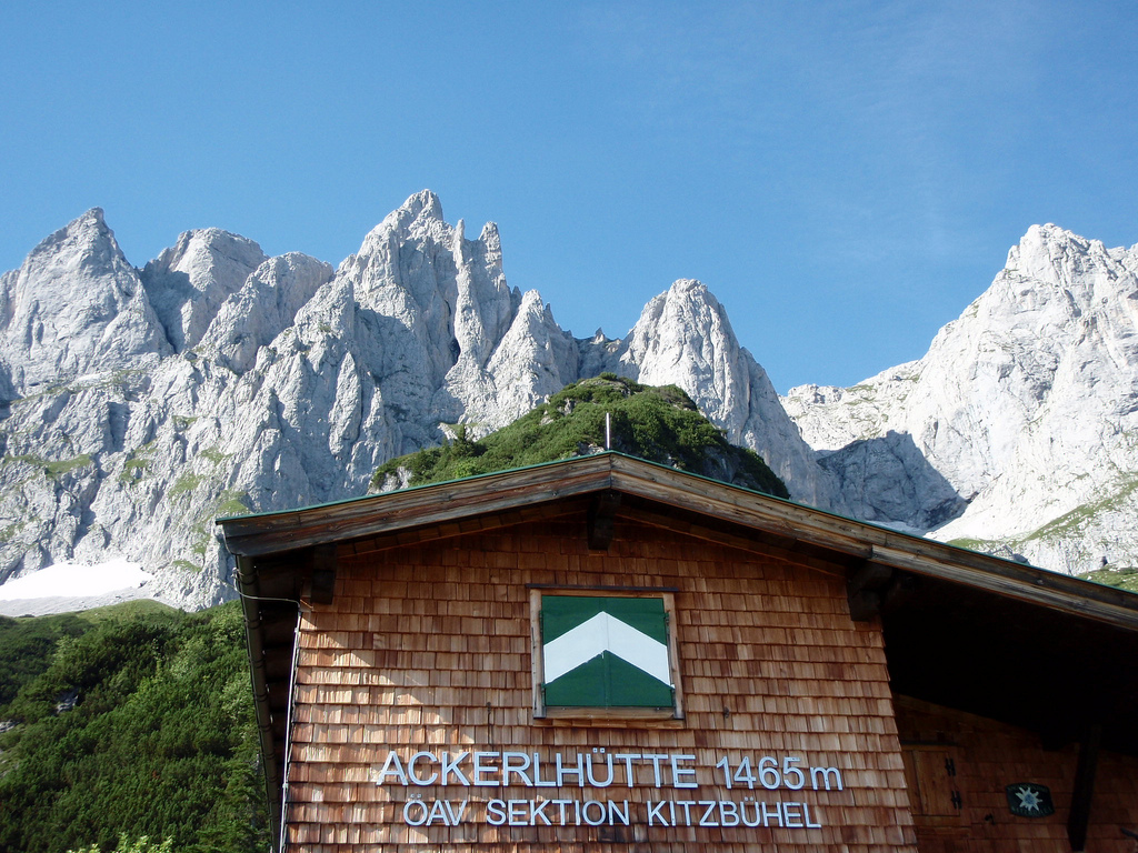 View up to the Kaisergebrige from the Ackerlhütte